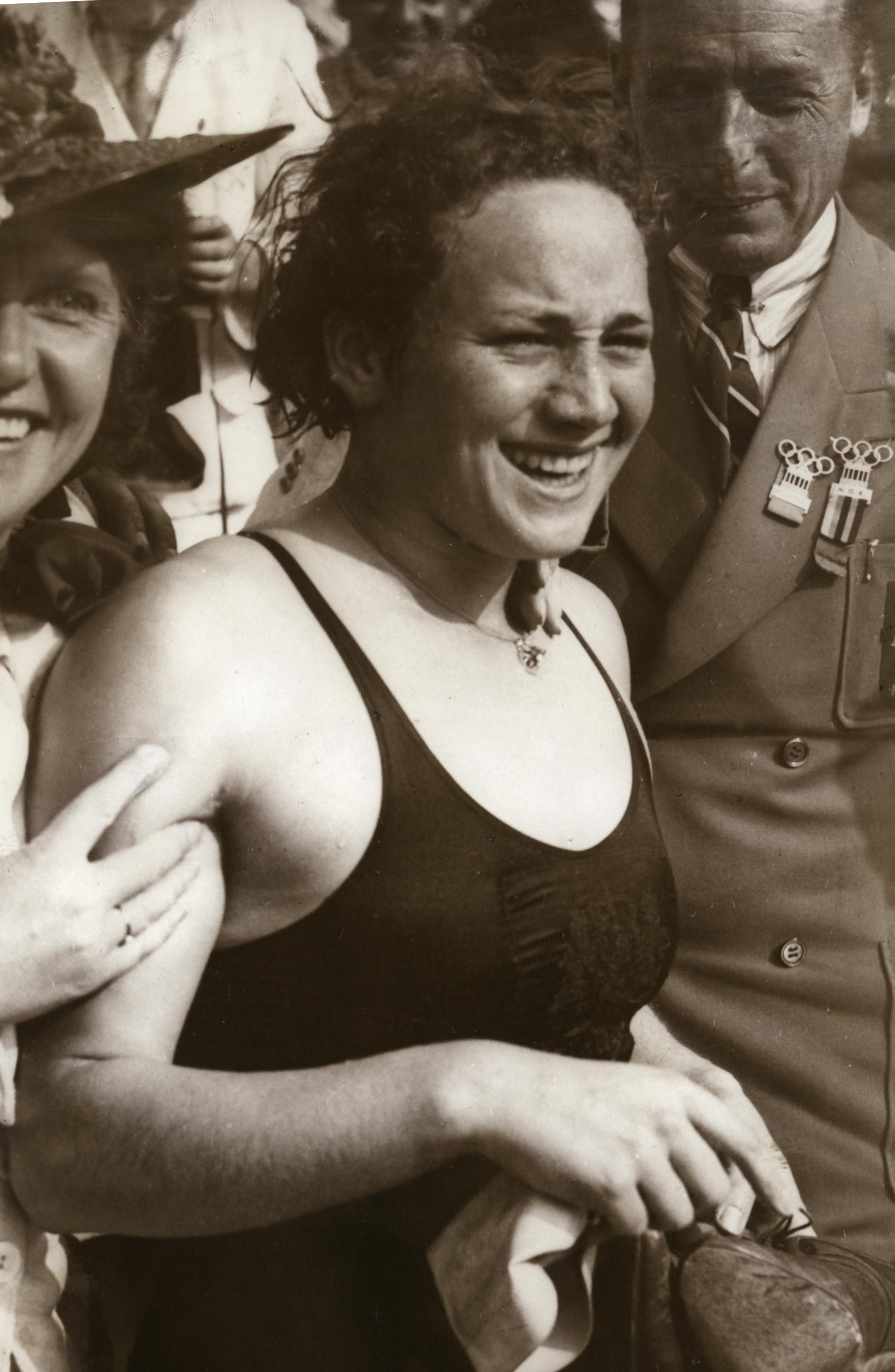 Hendrika "Rie" Wilhelmina Mastenbroek (26 February 1919 – 6 November 2003) was a Dutch swimmer and a triple Olympic champion.